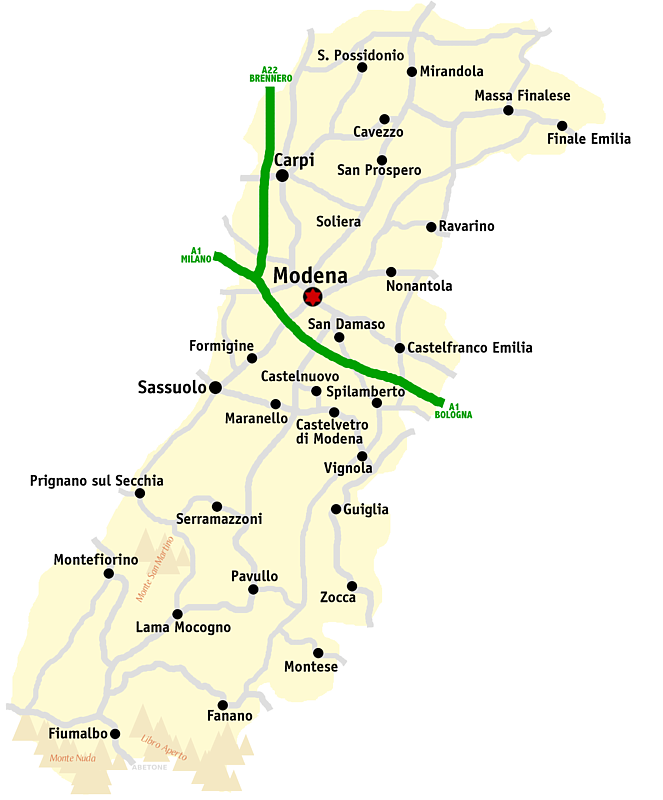 Map of Province of Modena